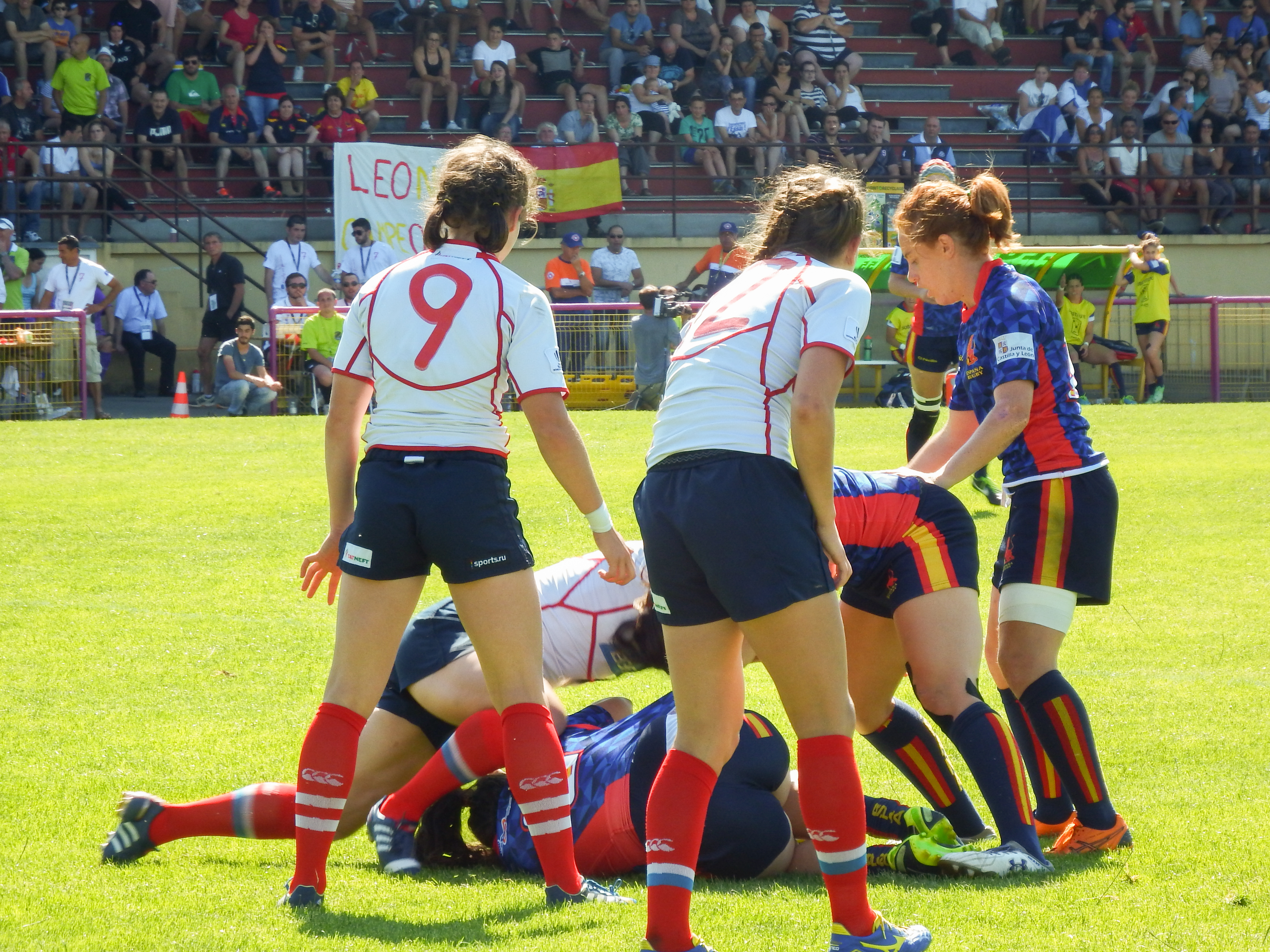 Malemort Sevens 2015 — 20 June 2015, stade Raymond-Faucher. Match between: Russia — Spain